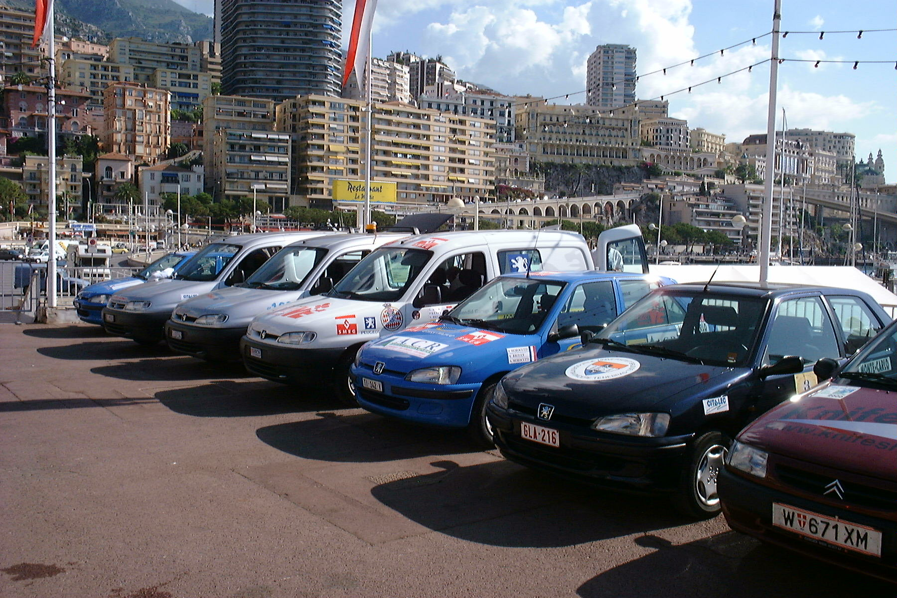 Battery-electric vehicles lined up for the departure of the Transeuropean demonstration event, July 2000. Photo by Peter Van den Bossche